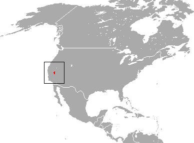 Mount Lyell Shrew (Sorex lyelli) range